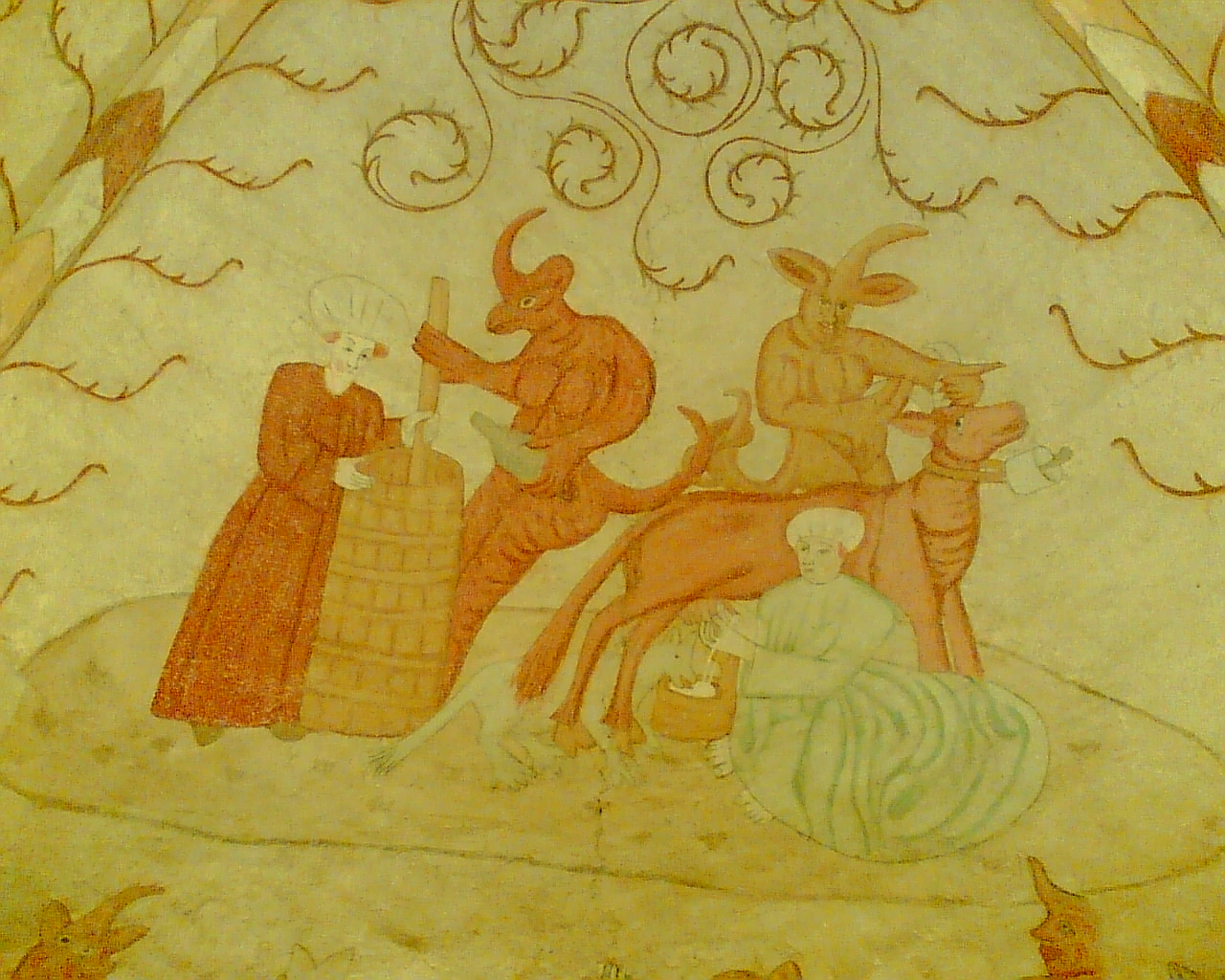 Wall painting in the Church of Lohja, Finland, ca. 1510